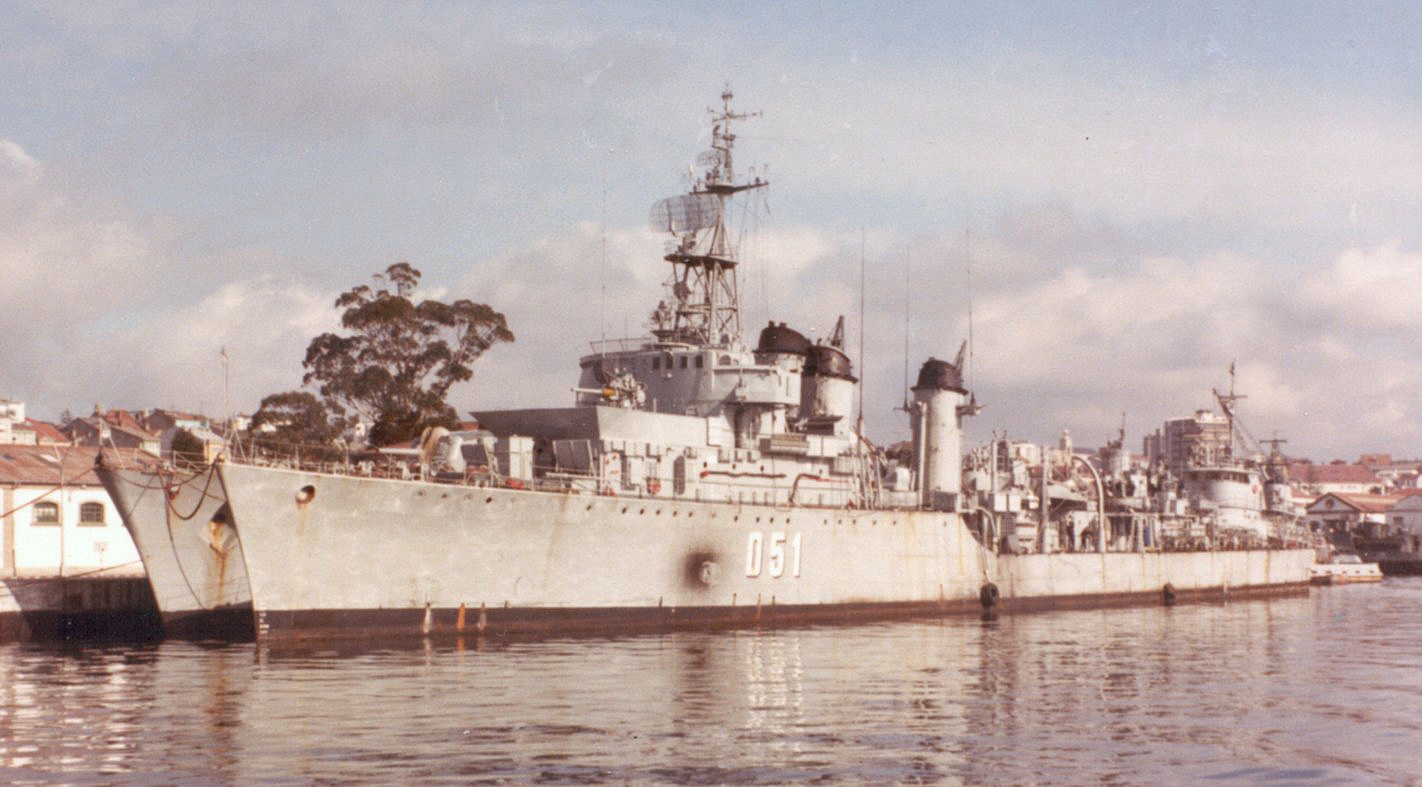 Spanish destroyer Liniers (D-51)